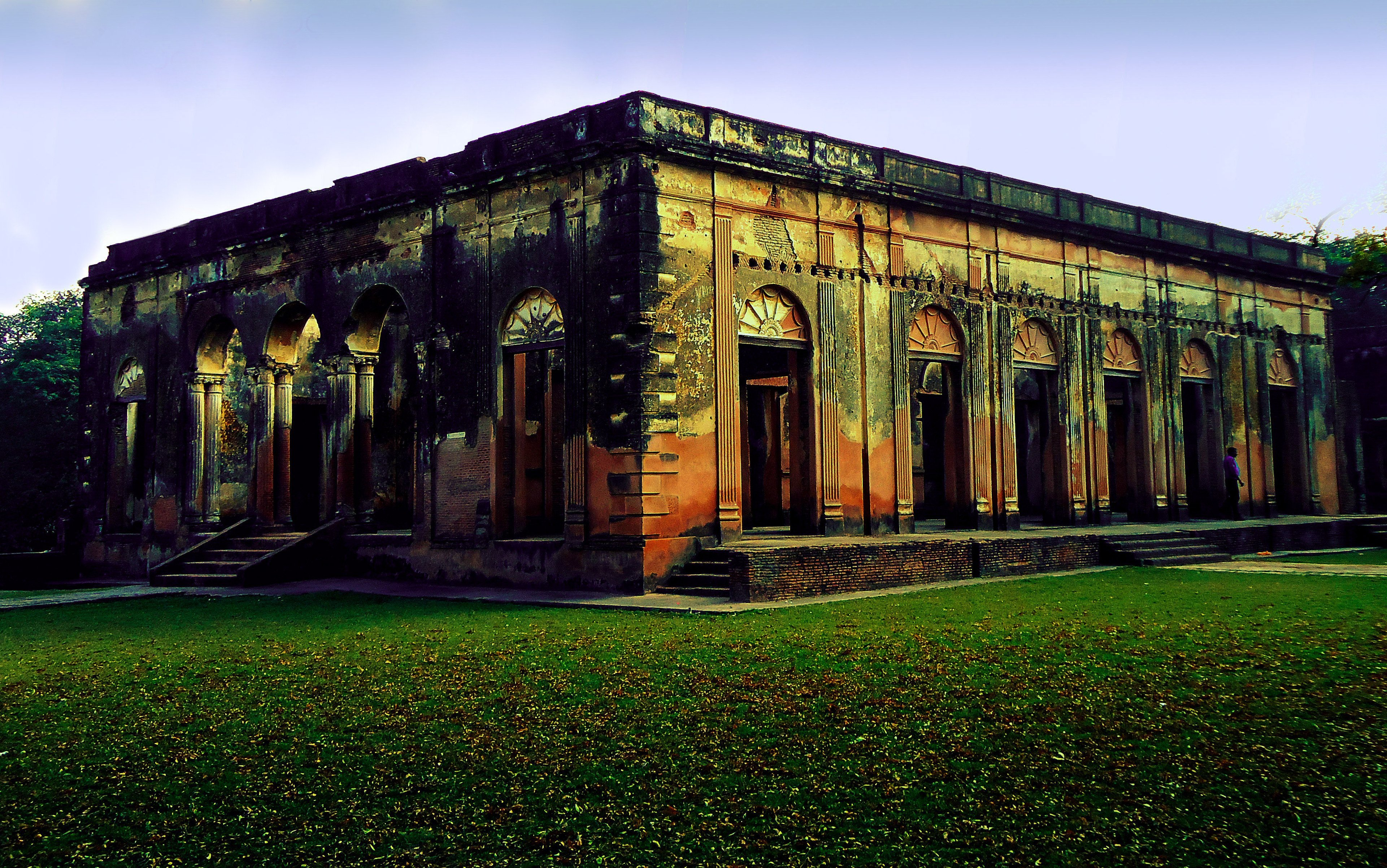 The Residency, also called as the British Residency and Residency Complex, is a group of several building in a common precinct. The Residency now exists in ruins and is located in the heart of the city, in vicinity of other monuments like Shaheed Smarak, Tehri Kothi and High Court Building. It was constructed during the rule of Nawab Saadat Ali Khan II,who was the fifth Nawab of the province of Awadh (British Spelling Oudh). The construction took place between 1780 to 1800 AD and served as the residence for the British Resident General who was a representative in the court of the Nawab. In 1857 the place witnessed a prolonged battle which is also known as Siege of Lucknow; this began on 1 July and continued until 17 November.